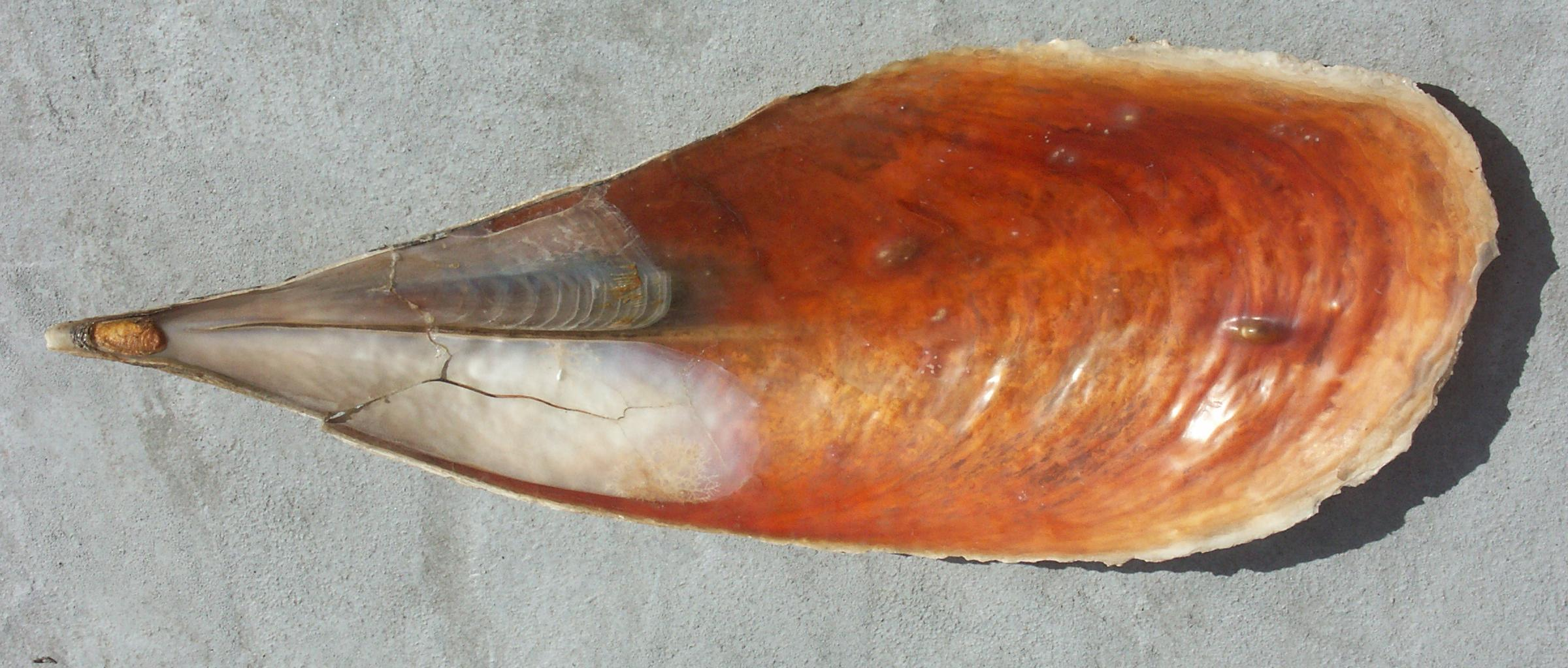 Pinna ou nacre géante coquillage photo by Jean-Patrick Donzey